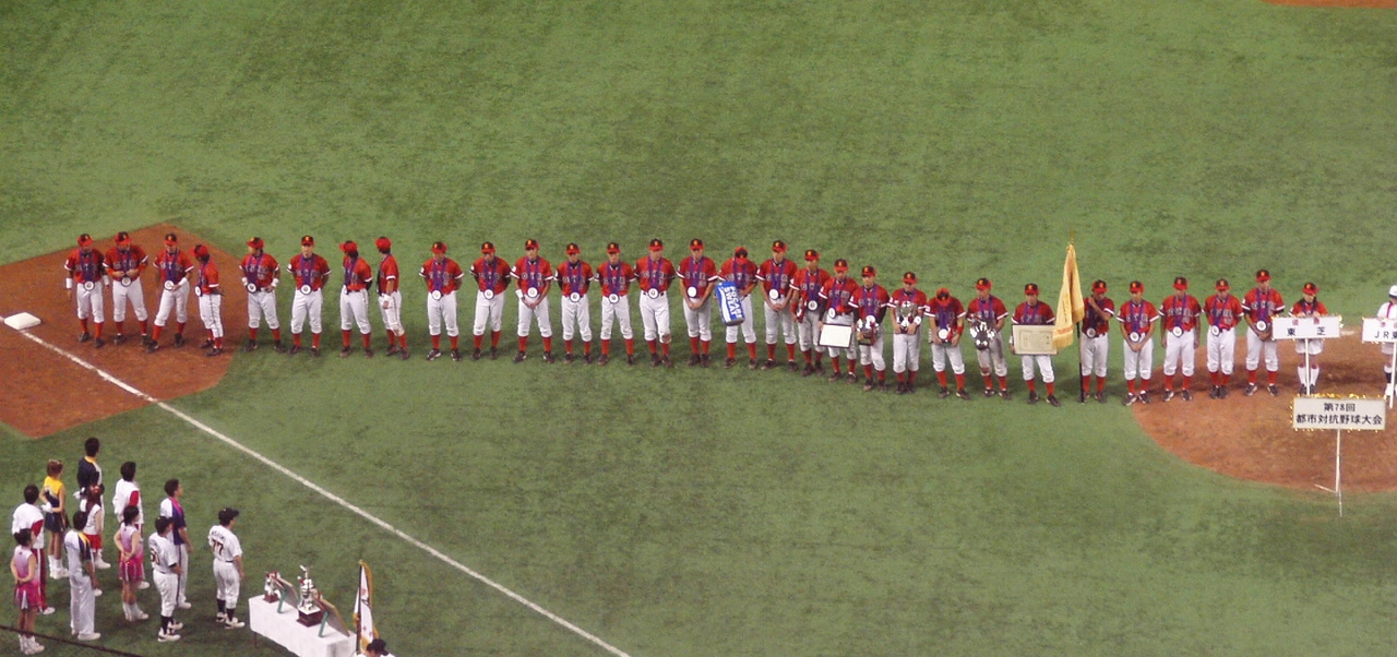 The Intercity Baseball Tournament Toshiba 2007